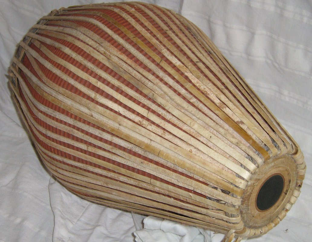 Treble head of a Khol, bangla drum from India